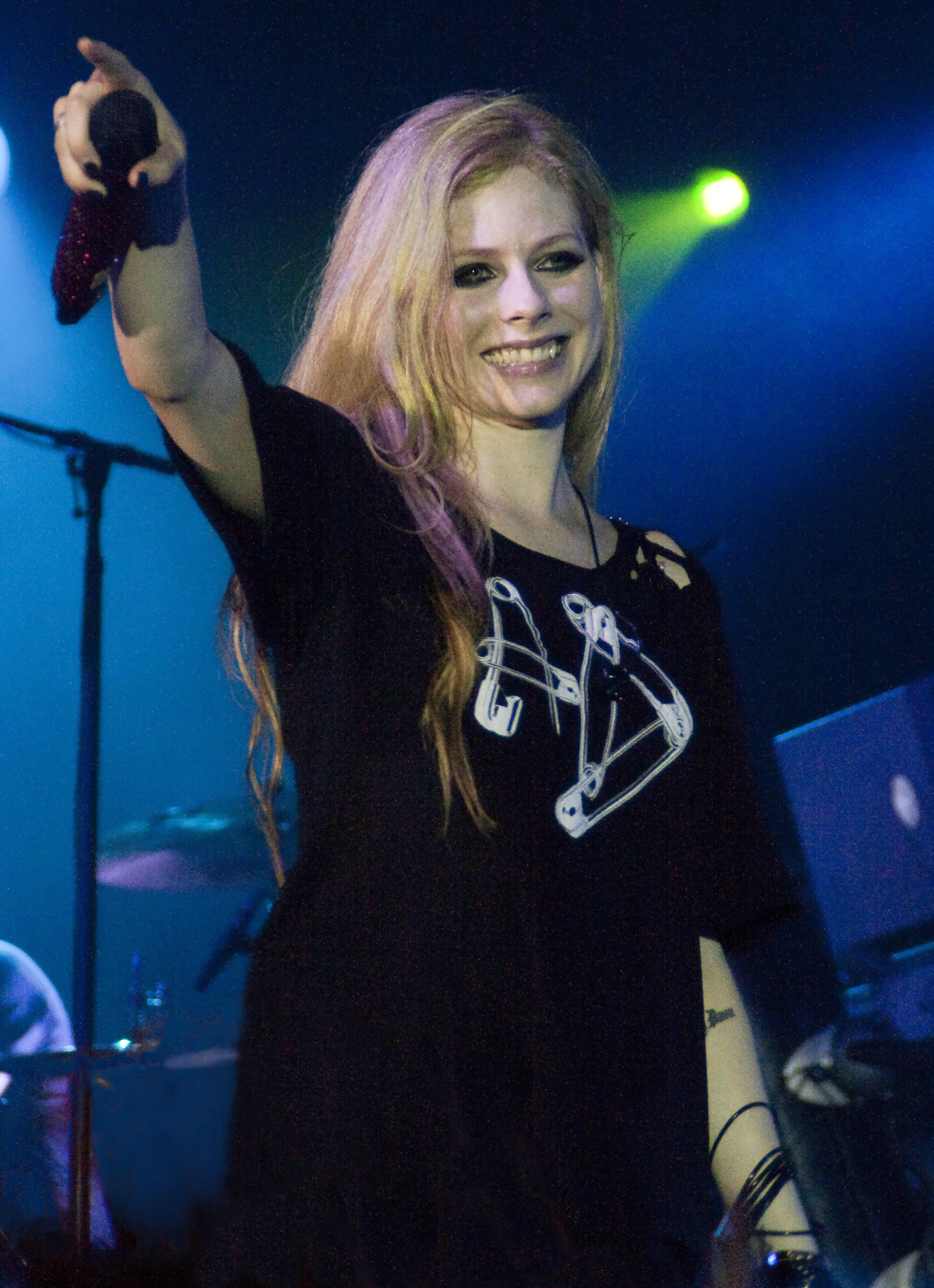 Avril Lavigne performing during the Kartika Expo at the Balai Kartini in Jakarta, Indonesia, on her Black Star Tour. This photo was taken on 11 May 2011 with a Canon EOS 1000D.